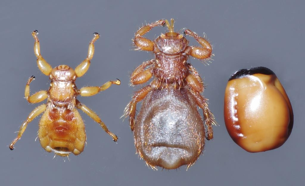 Melophagus ovinus, sheep-ked; male, female and puparium; a blood-feeding ectoparasite of sheep